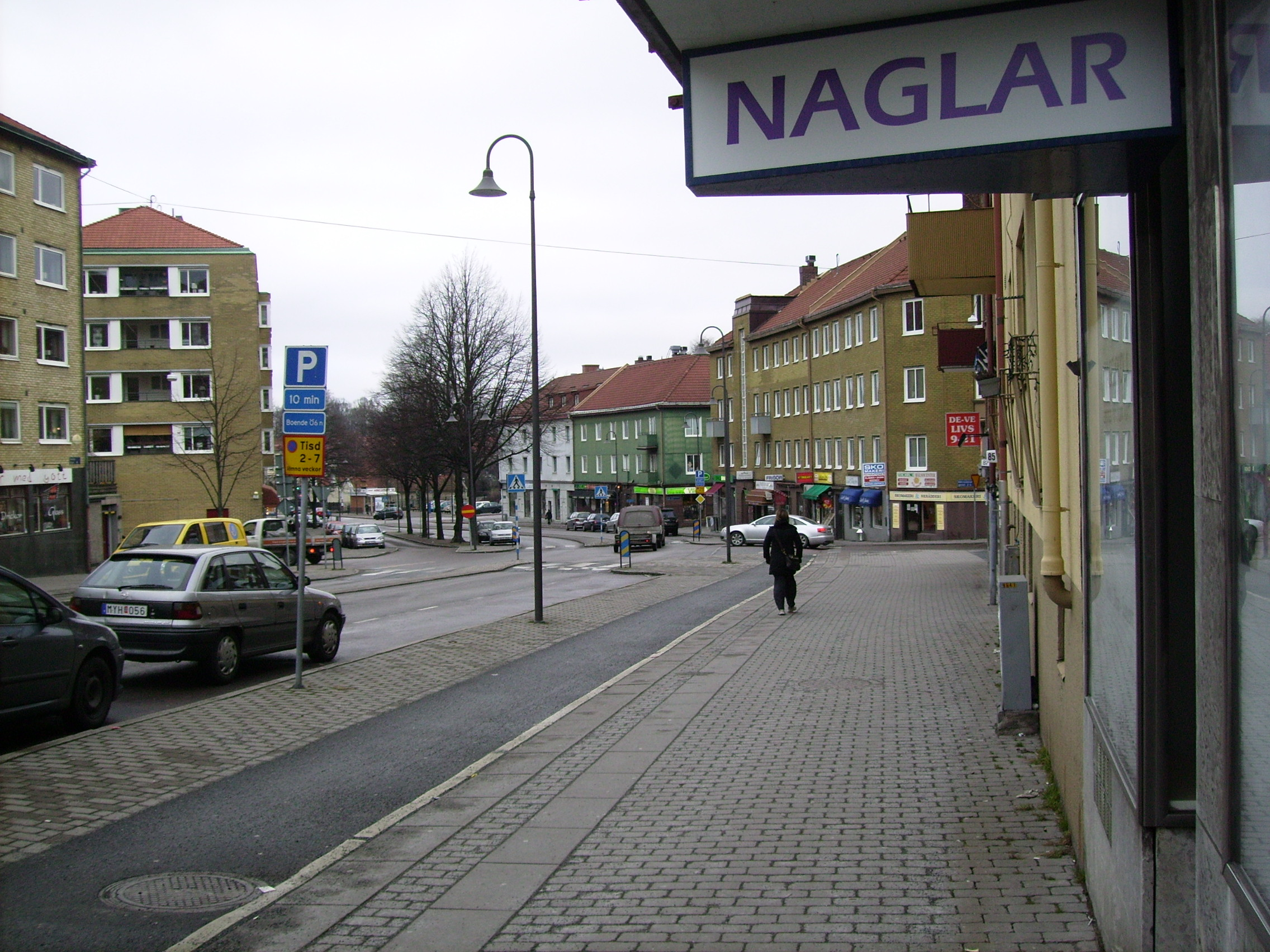 Danska vägen in Gothenburg.